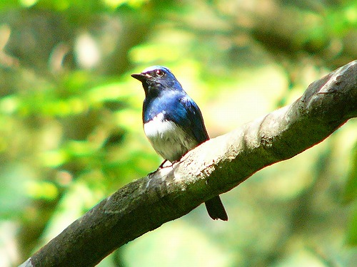 Blue-and-white Flycatcher (Cyanoptila cyanomelana), Hokkaido, Japan.